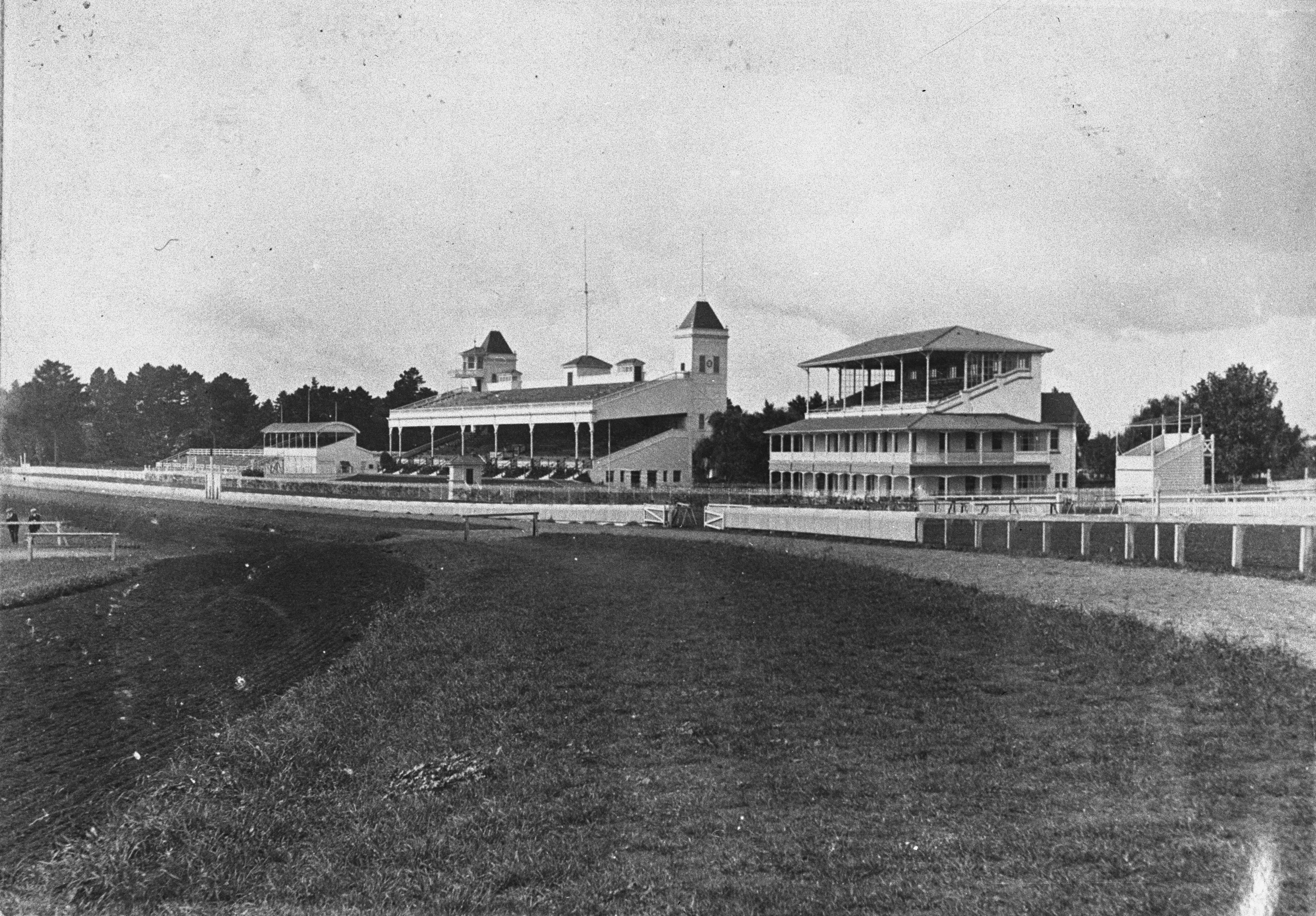 Ellerslie Racecourse, looking along the main straight towards the grandstands. Photographed by Albert Percy Godber, circa 1910. This film copy negative is taken from the print in the Godber Album Vol 110, p 63 (PA1-q-103)